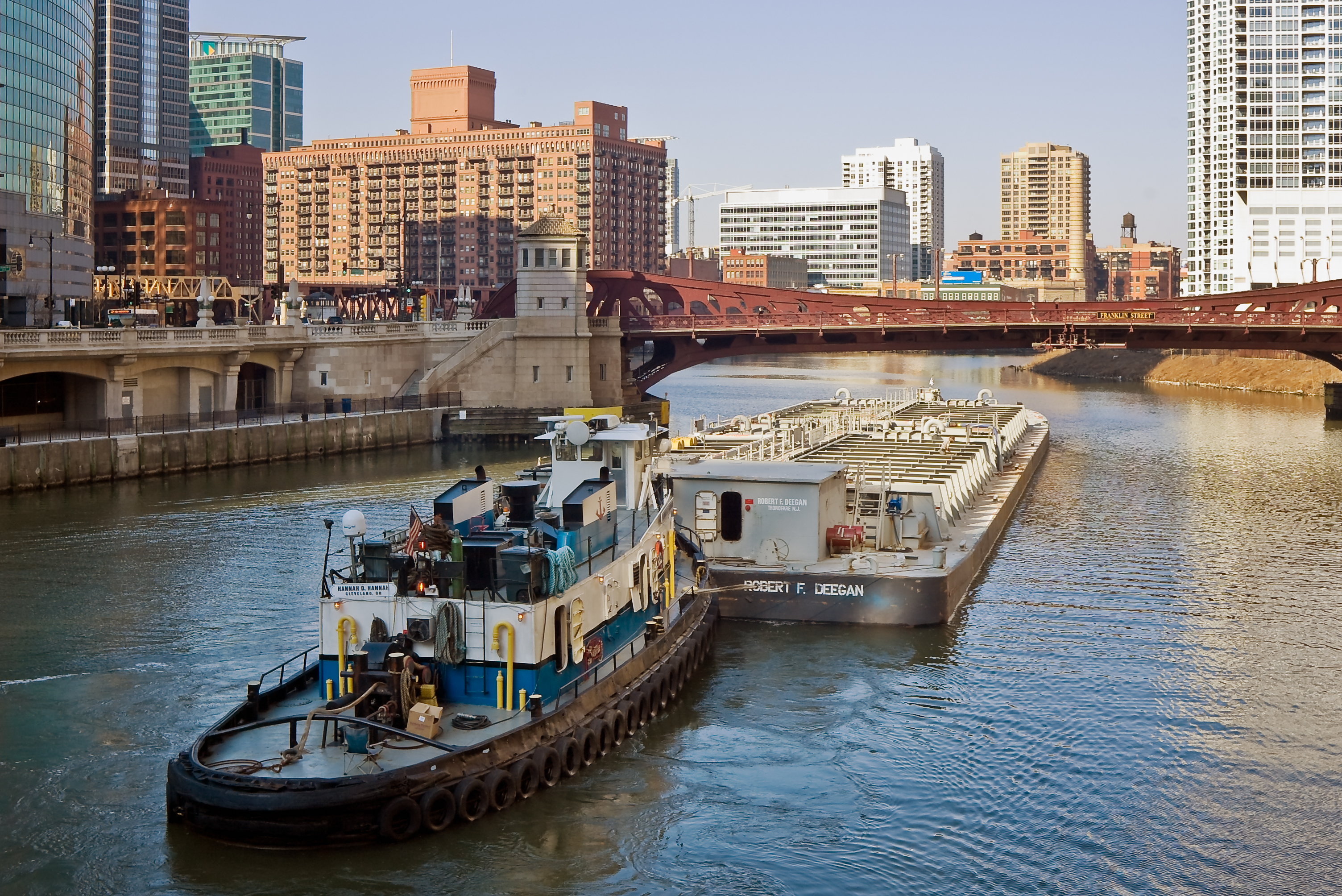 A tugboat pushing a barge westward along the main stem of the Chicago River